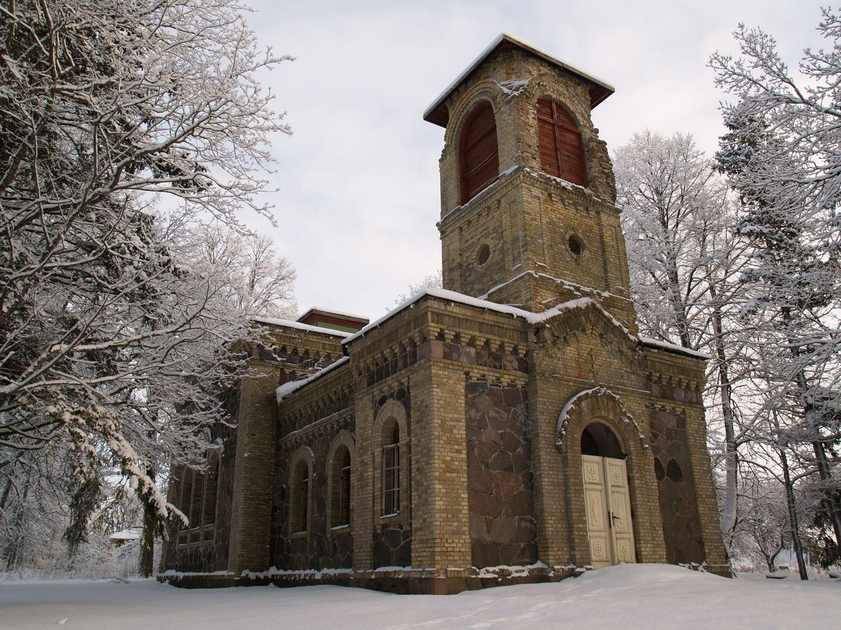 Tõhela church